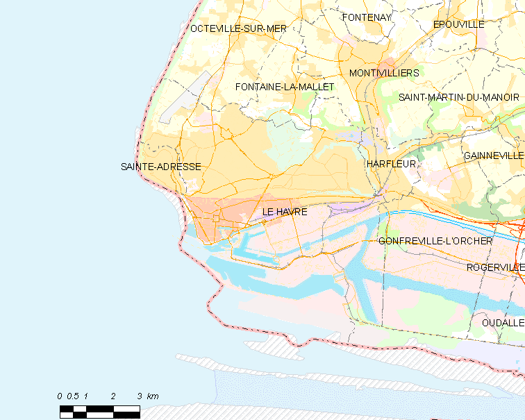 Map of French municipality Le Havre